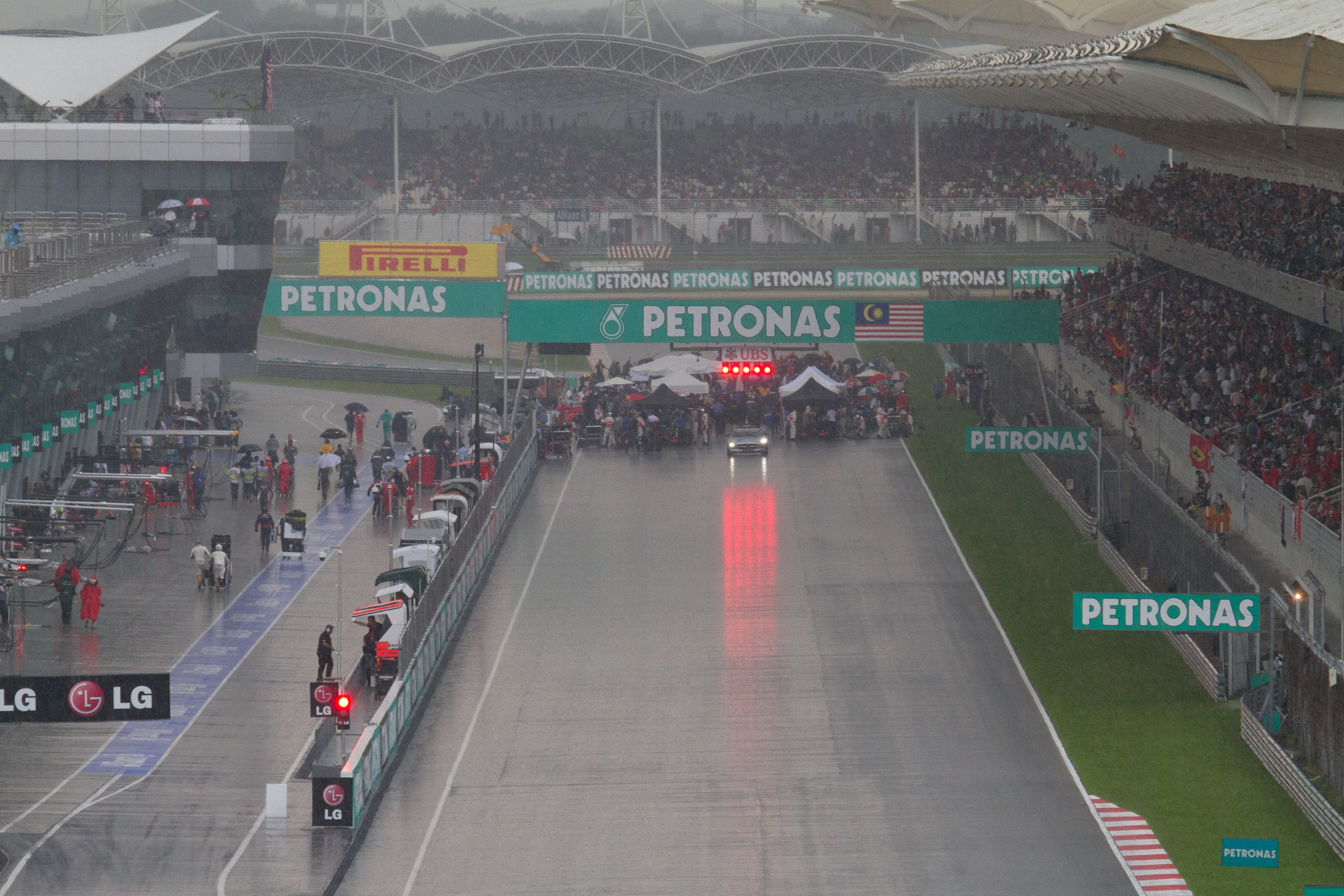 Formula One 2012 Rd.2 Malaysian GP: during the race is temporarily suspended.